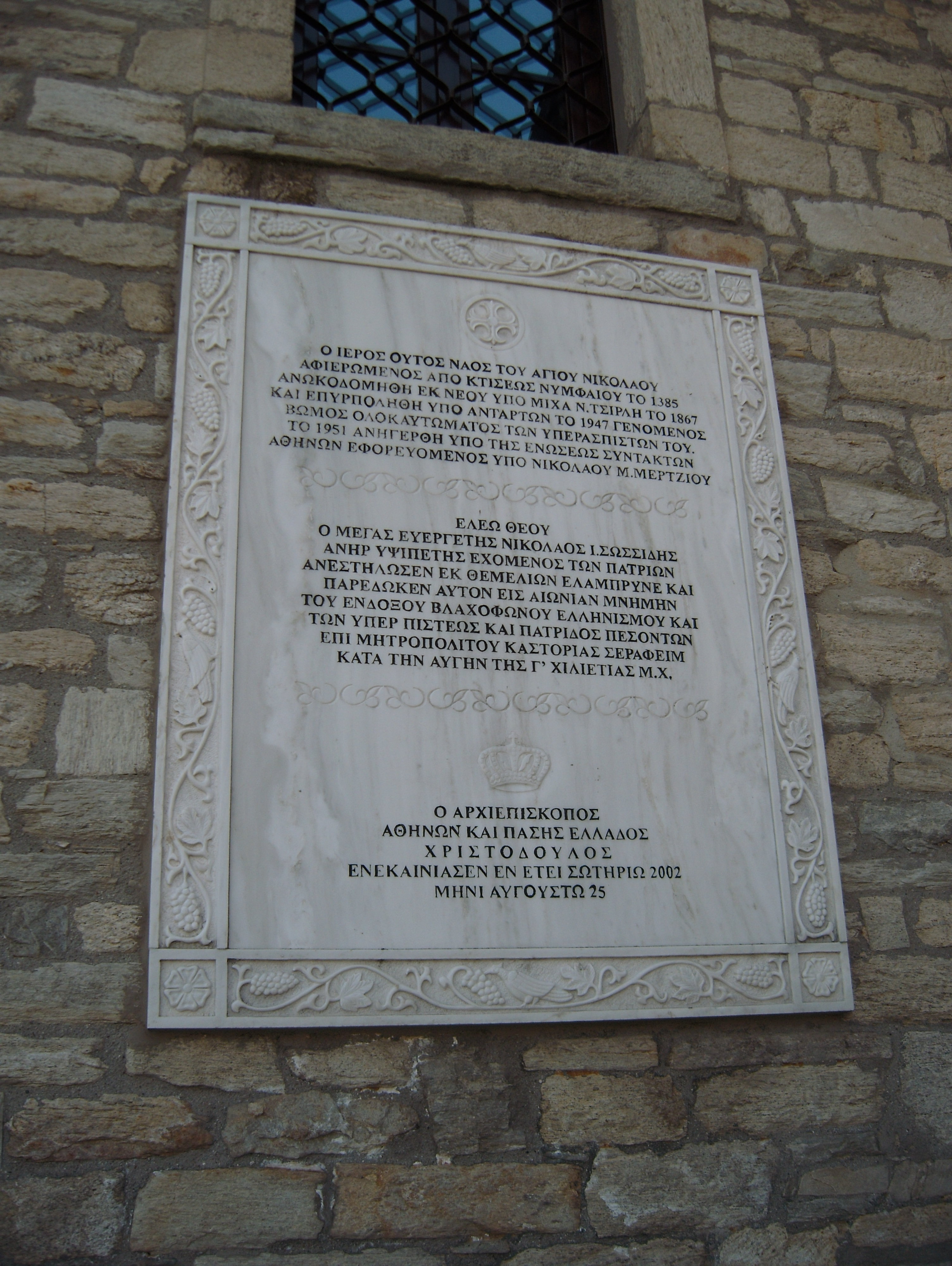 Neveska / Nymfaio